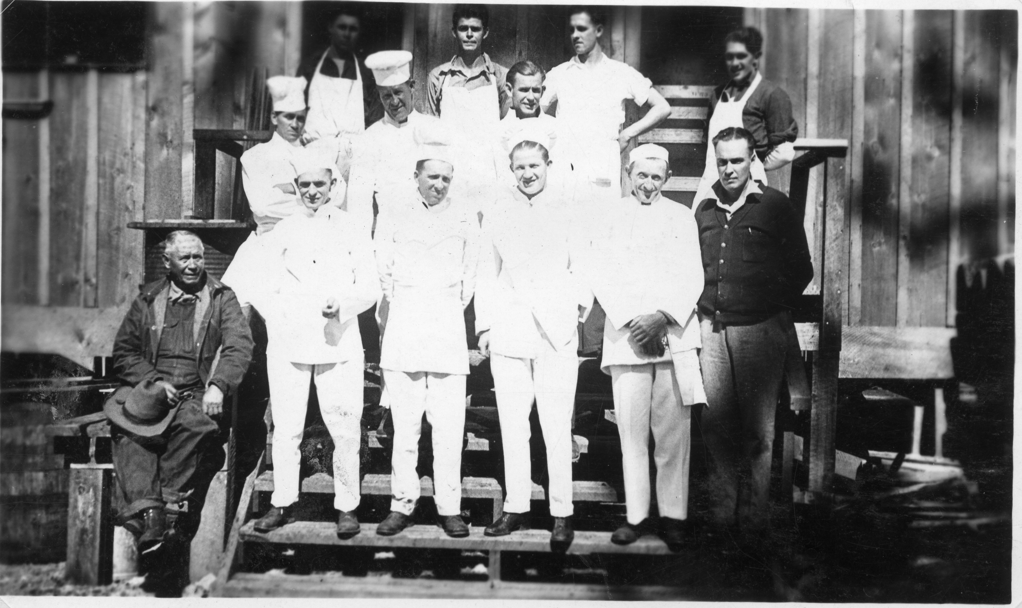 Original Collection: Gerald W. Williams Collection Item Number: WilliamsG:CCC kitchen crew You can find this image by searching for the item number by clicking here. Want more? You can find more digital resources online. We're happy for you to share this digital image within the spirit of The Commons; however, certain restrictions on high quality reproductions of the original physical version may apply. To read more about what “no known restrictions” means, please visit the Special Collections & Archives website, or contact staff at the OSU Special Collections & Archives Research Center for details.